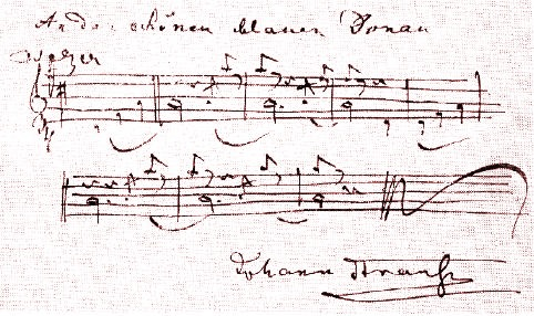 The first few bars of Johann Strauss' most famous work, the Blue Danube waltz (written in 1867). Strauss' signature appears in the lower-right corner. Source: [1]